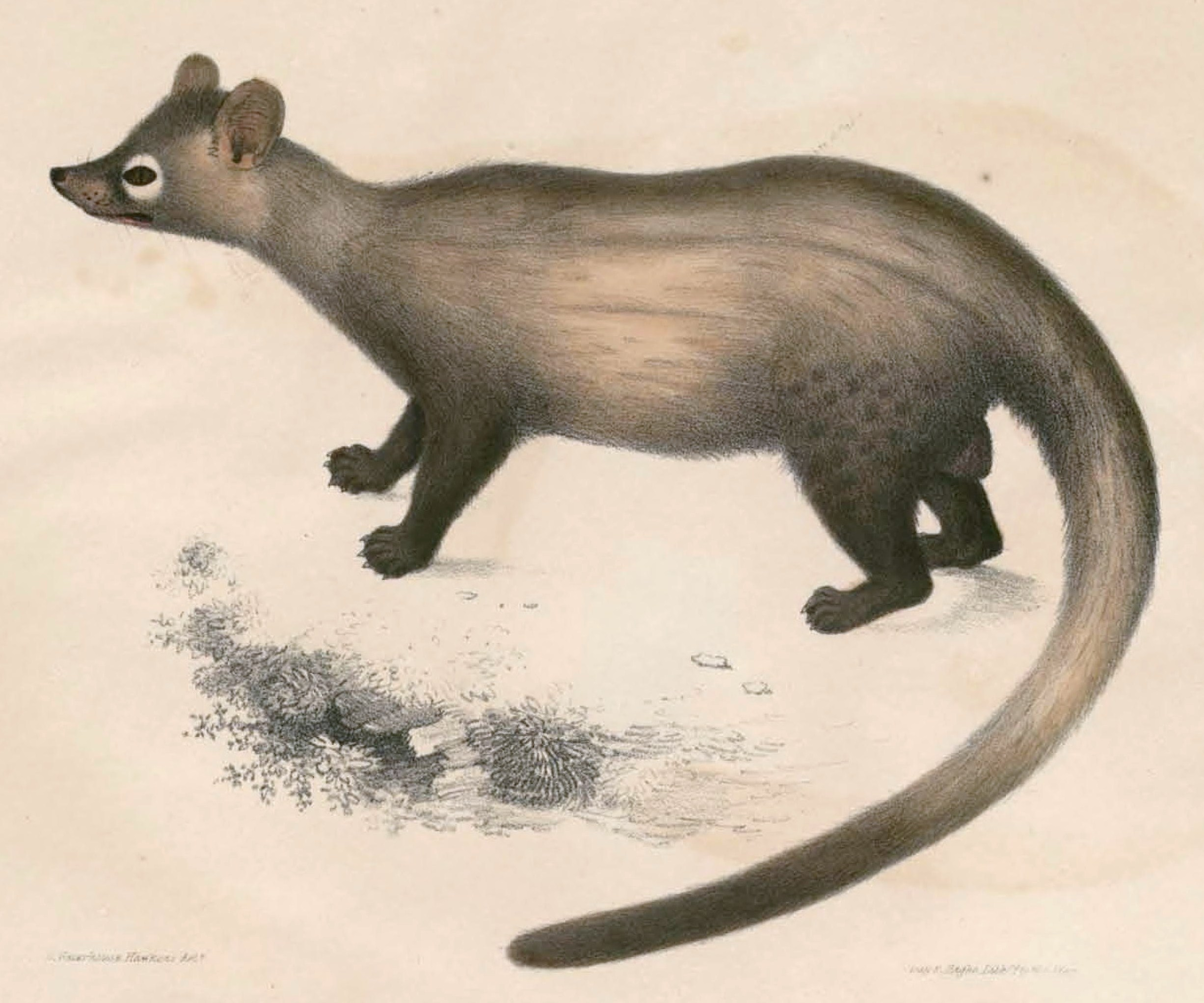 « Paradoxurus pennantii » = Paradoxurus hermaphroditus pennantii (Subspecies of Asian palm civet)